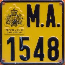 This special square-shaped format is issued since September 1996 for all agricultural vehicles registered in San Marino